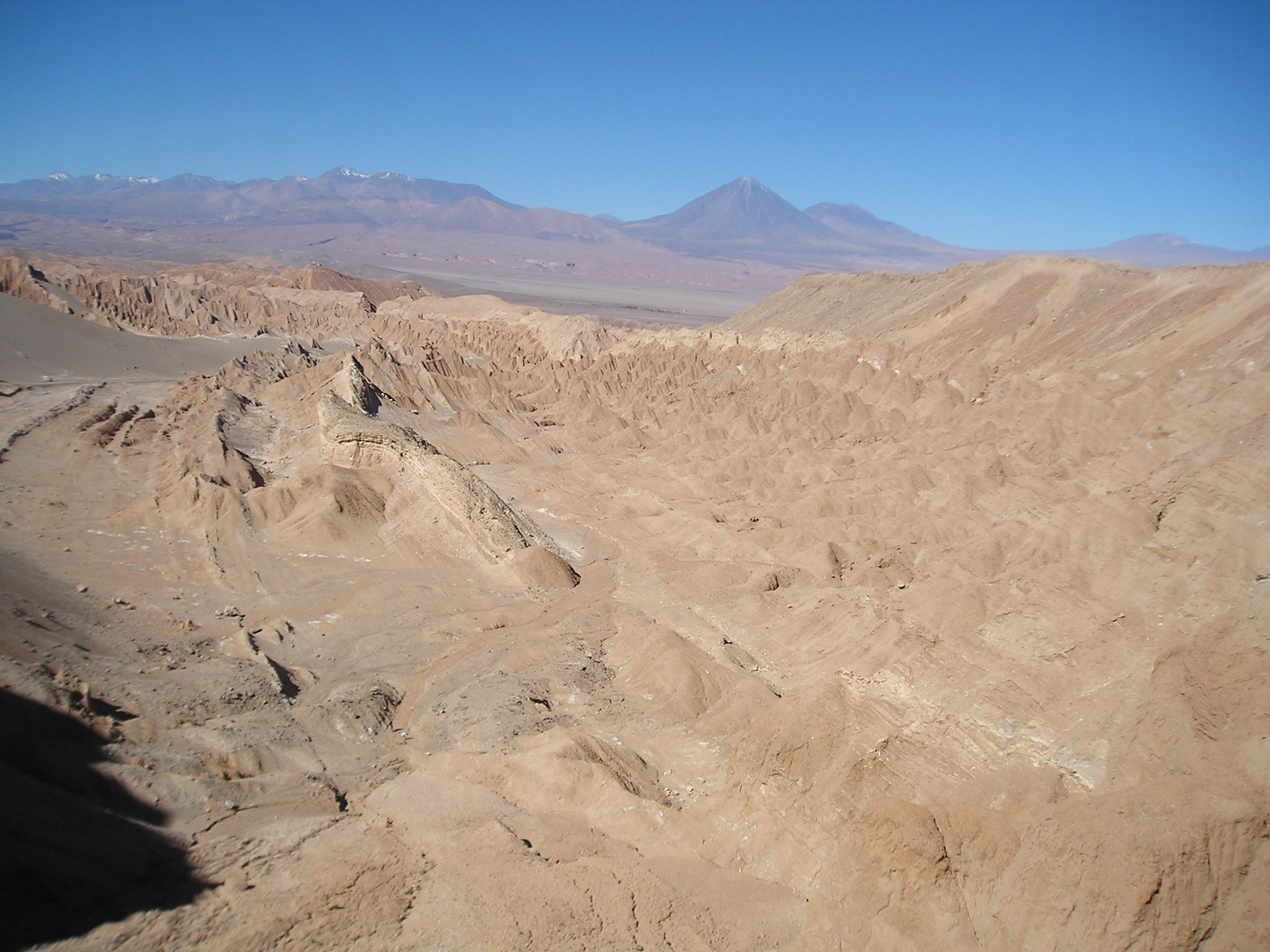 Valle de la Muerte (Death Valley), with Tuff rock formations, near San Pedro de Atacama, Chile.